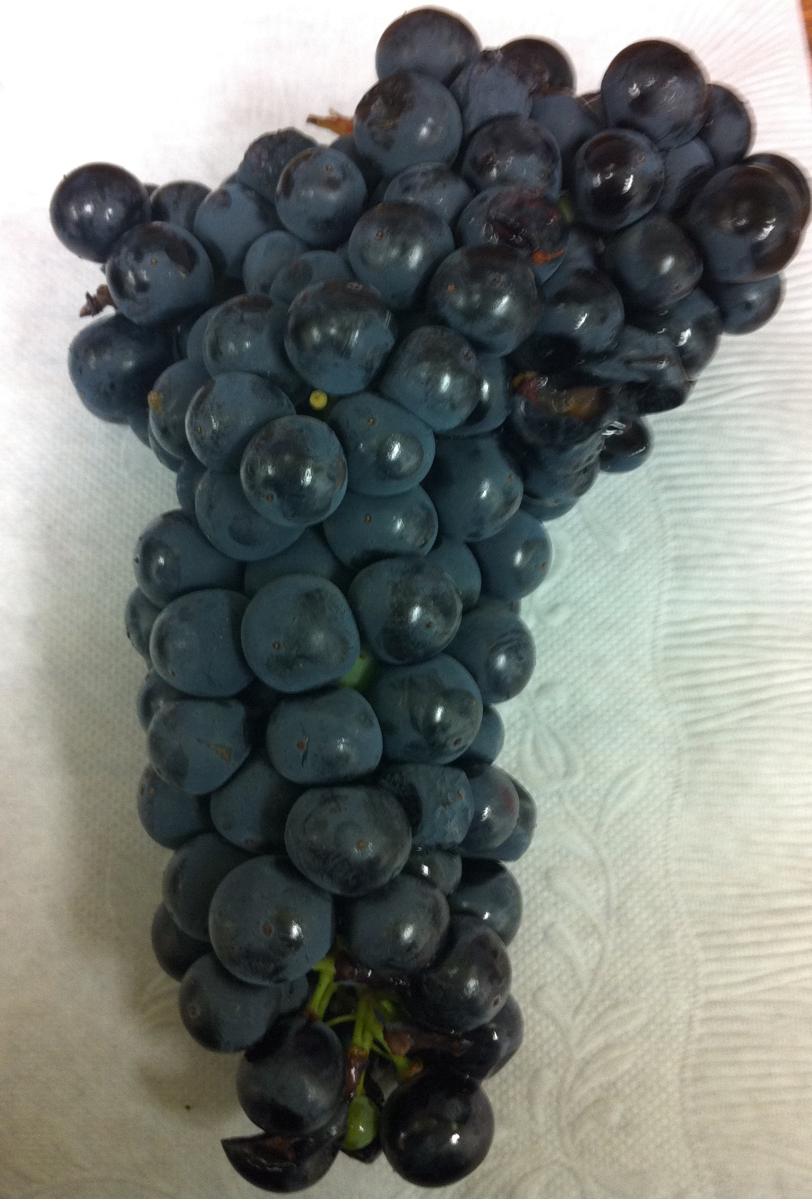 A cluster of Zinfandel from the Horse Heaven Hills AVA of Washington State